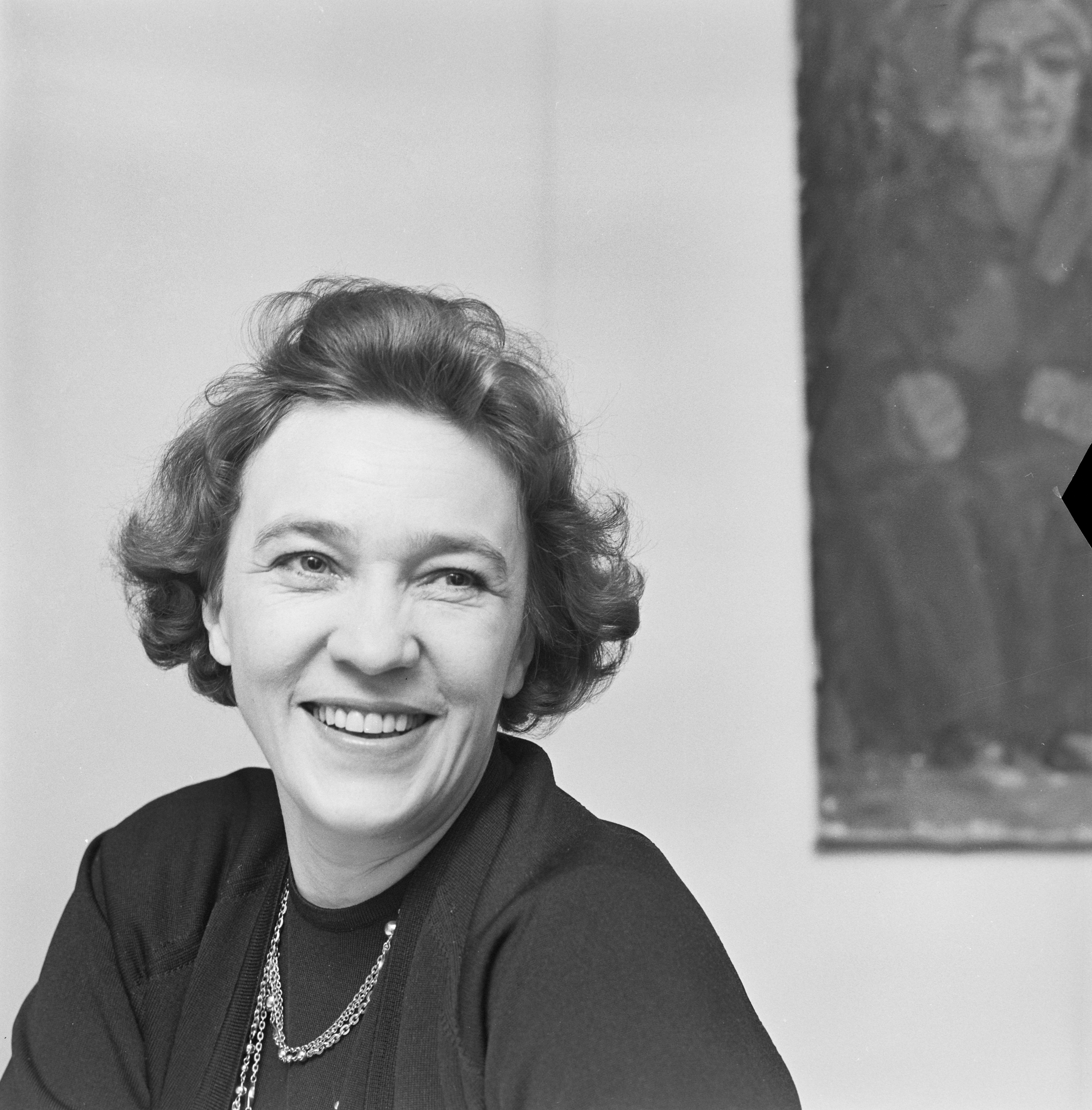 Photograph of the Finnish actor Eila Pehkonen (1924–1991).